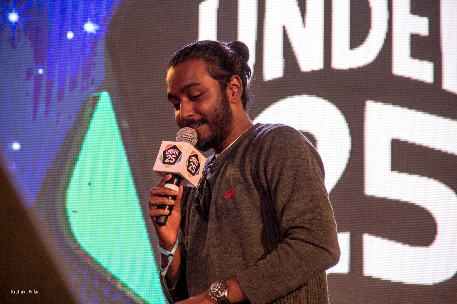 Vineeth Vincent at the 2017 Under 25 Summit, Bangalore